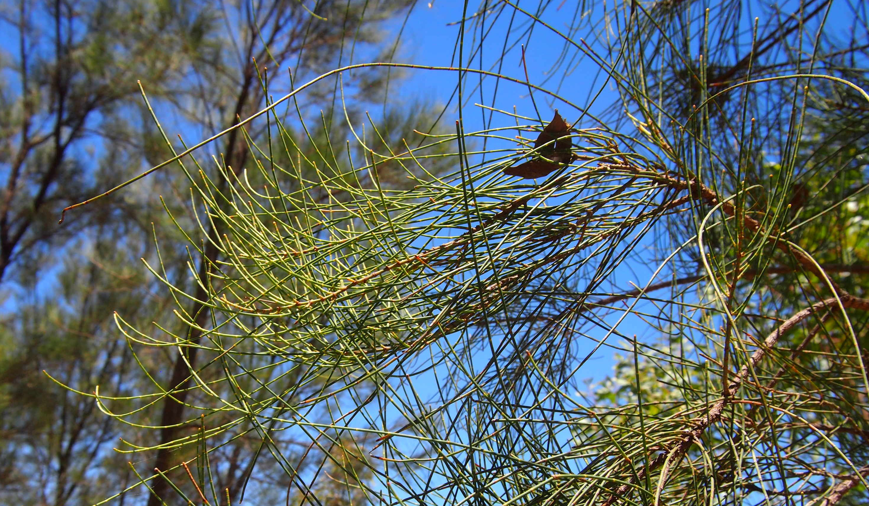 Allocasuarina luehmannii foliage